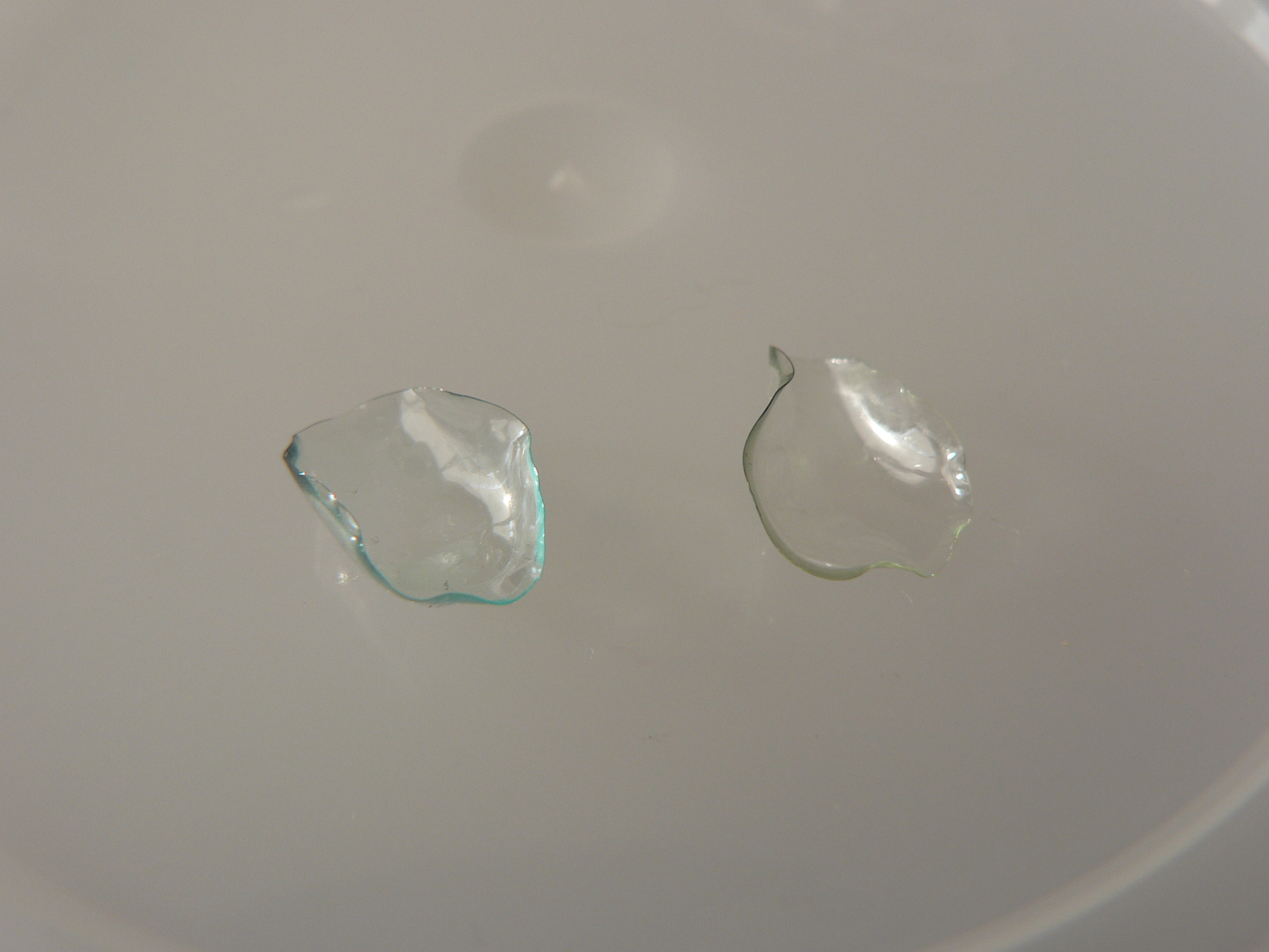 Dried contact lenses